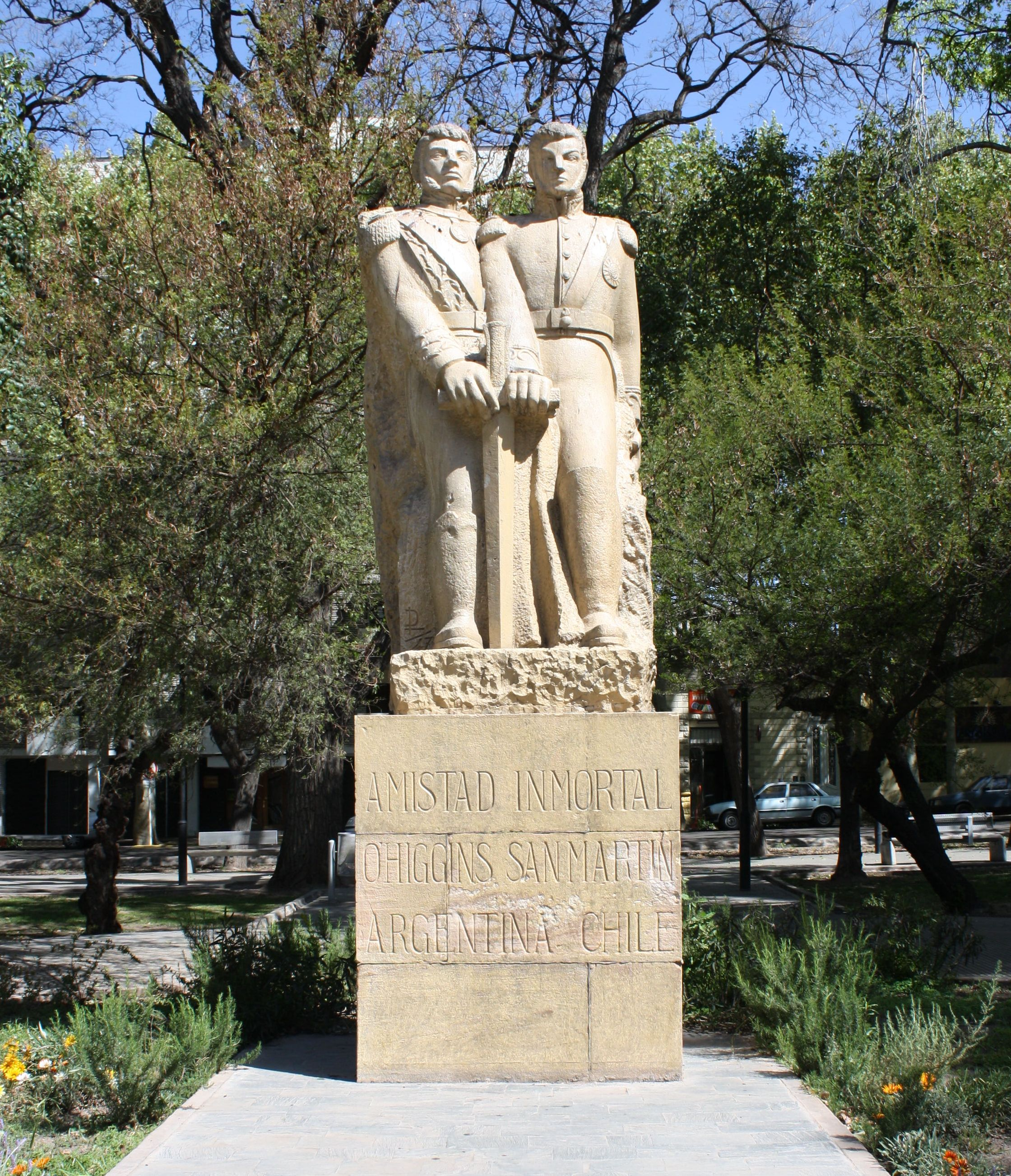 This statue is in Plaza Chile, Mendoza, Argentina.